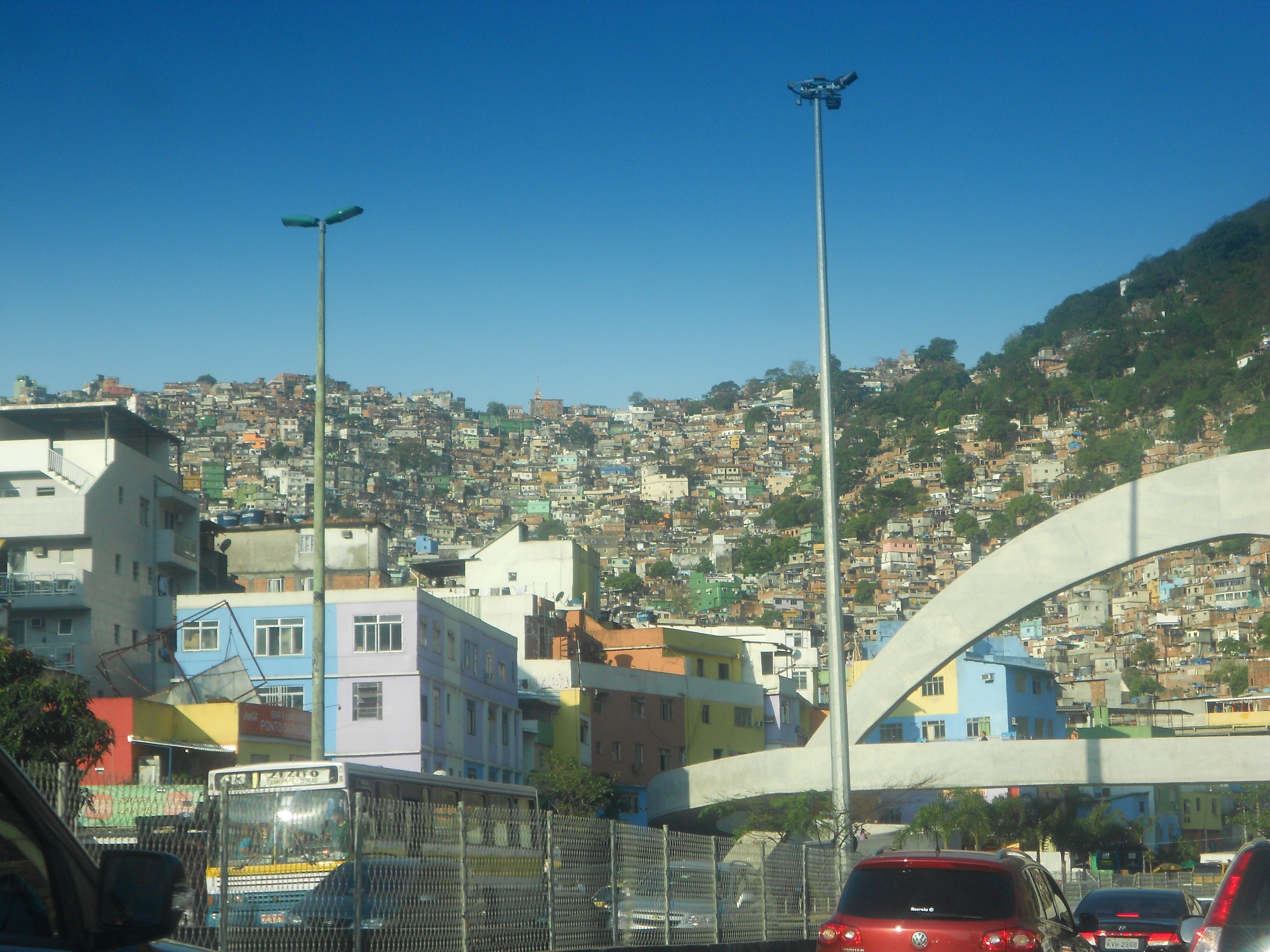 Rocinha, a slum in Rio de Janeiro, Brasil.